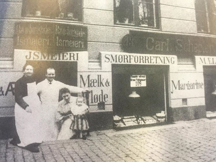 aren Marie Schepler 's store at Ravnsborggade 13 in Copenhagen which later turned into the supermarket chain Irma.